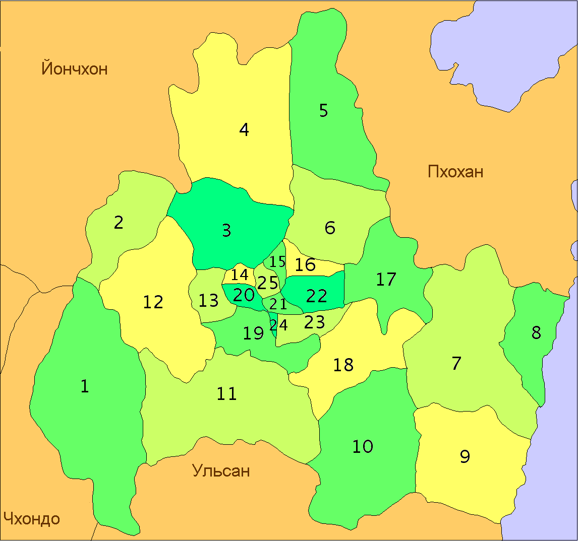 Divisions of Gyongju